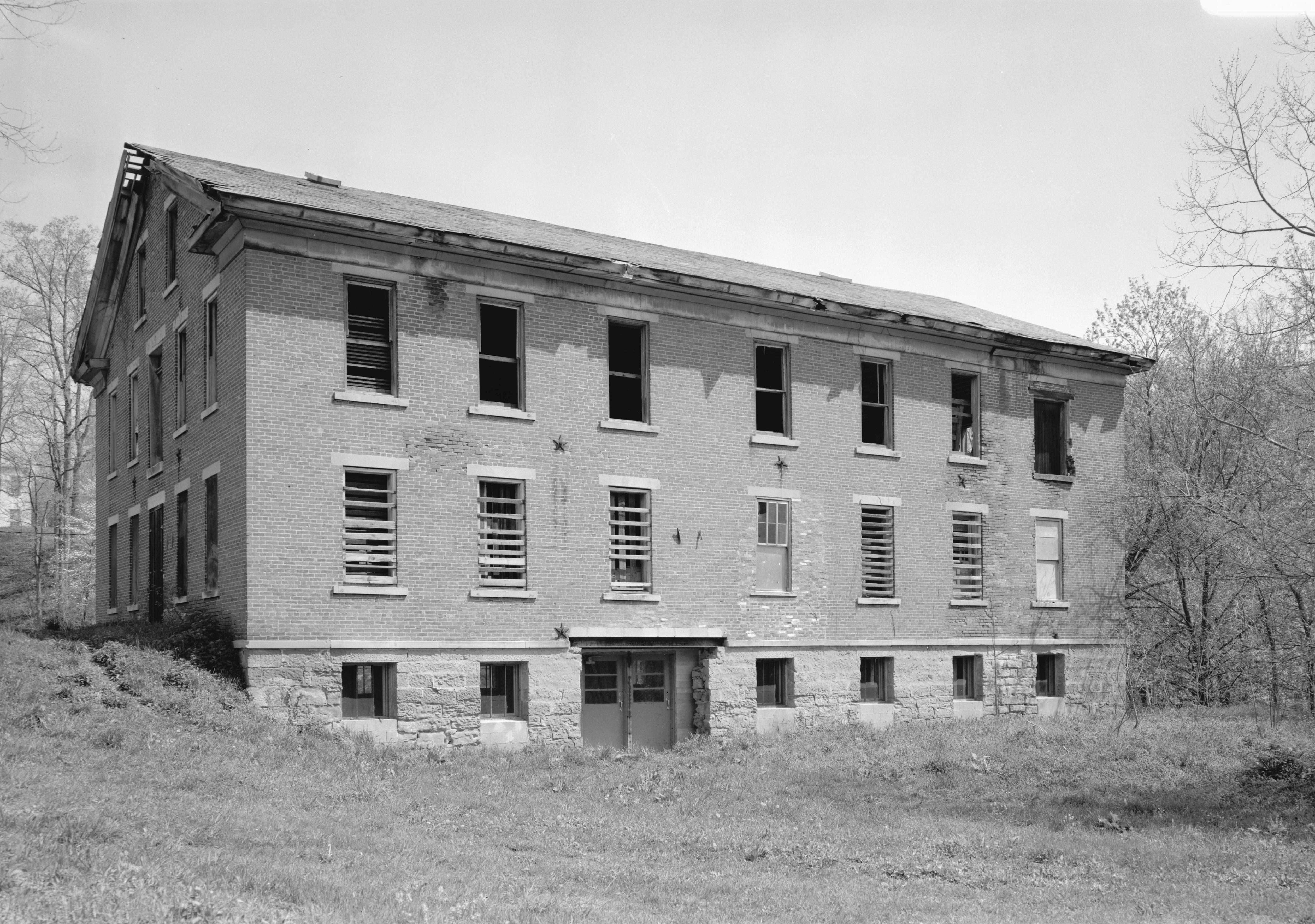 Side of Yount's Woolen Mill, located at 3729 Old State Road 32 W. near Crawfordsville in Montgomery County, Indiana, United States. Built in 1851, it is listed on the National Register of Historic Places.